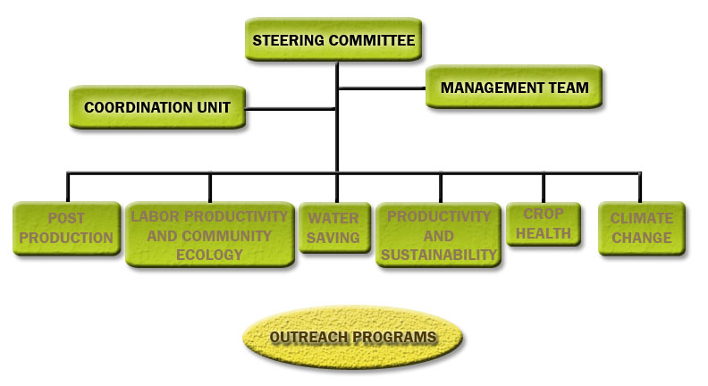 The IRRI IRRC has a management team (MT) consisting of the six Work Group leaders and the IRRC coordinator, who heads the Coordination Unit. The MT is responsible for project planning and budget allocation. It is the hub of the information and activities of the IRRC. The MT has a dynamic relationship with national research and extension personnel, NGOs, private industry, farmer groups, and other stakeholders.